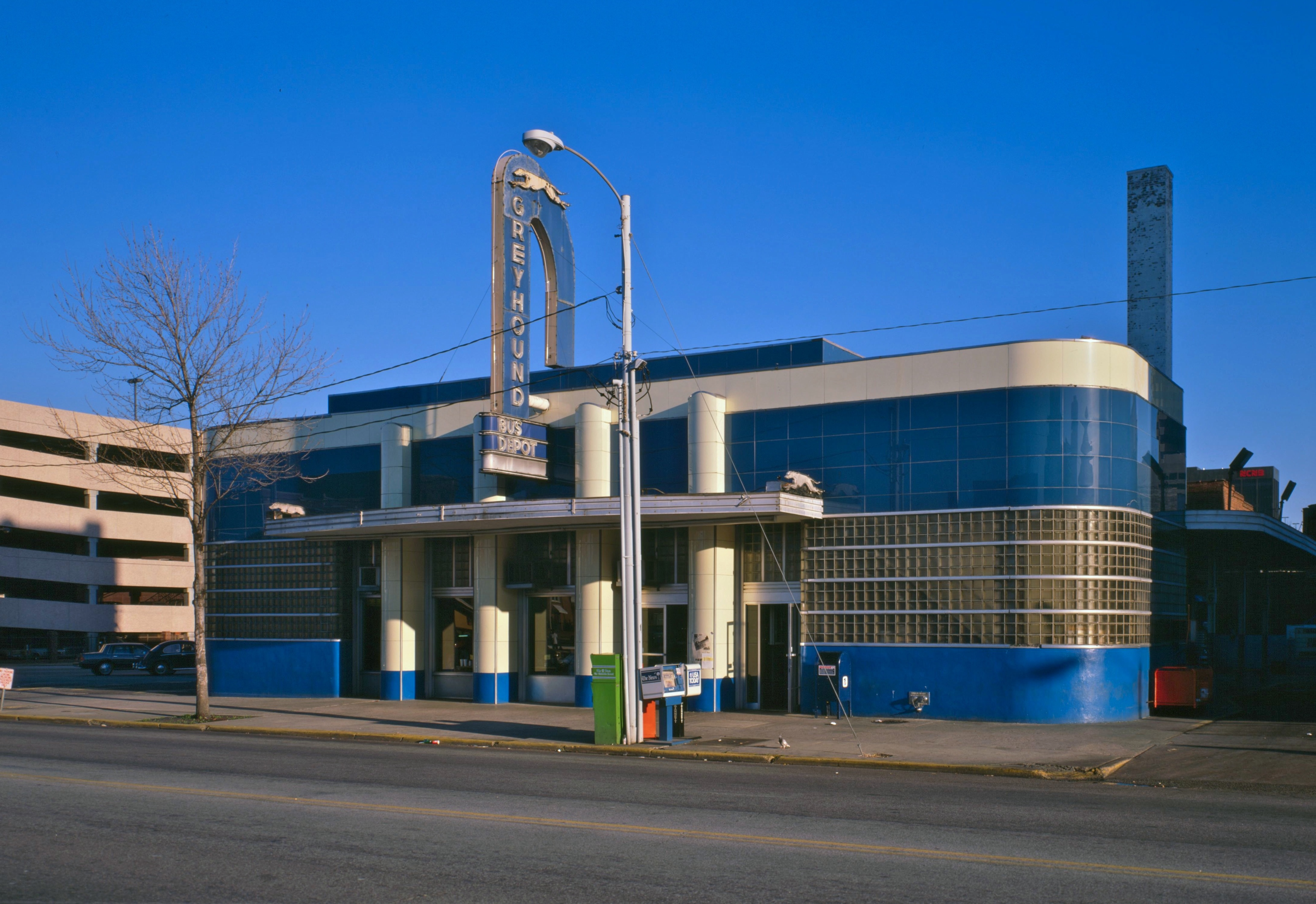 Greyhound Bus Station, 1200 Blanding Street, Columbia, Richland County, SC. Photo taken in November, 1986. Constructed: 1938-1939. The Greyhound Bus Station is Columbia's finest example of Art Moderne architecture, emphasizing the use of new materials such as aluminum, stainless steel, and "Vitrolite" glass panels, and with extensive use of streamlining. Its exterior features include blue and ivory "Vitrolite" glass panels and an aluminum marquee trimmed with stainless steel bands and aluminum greyhound at each end. Greyhound stopped using the depot in 1987. At present it has been converted into a plastic surgery clinic.